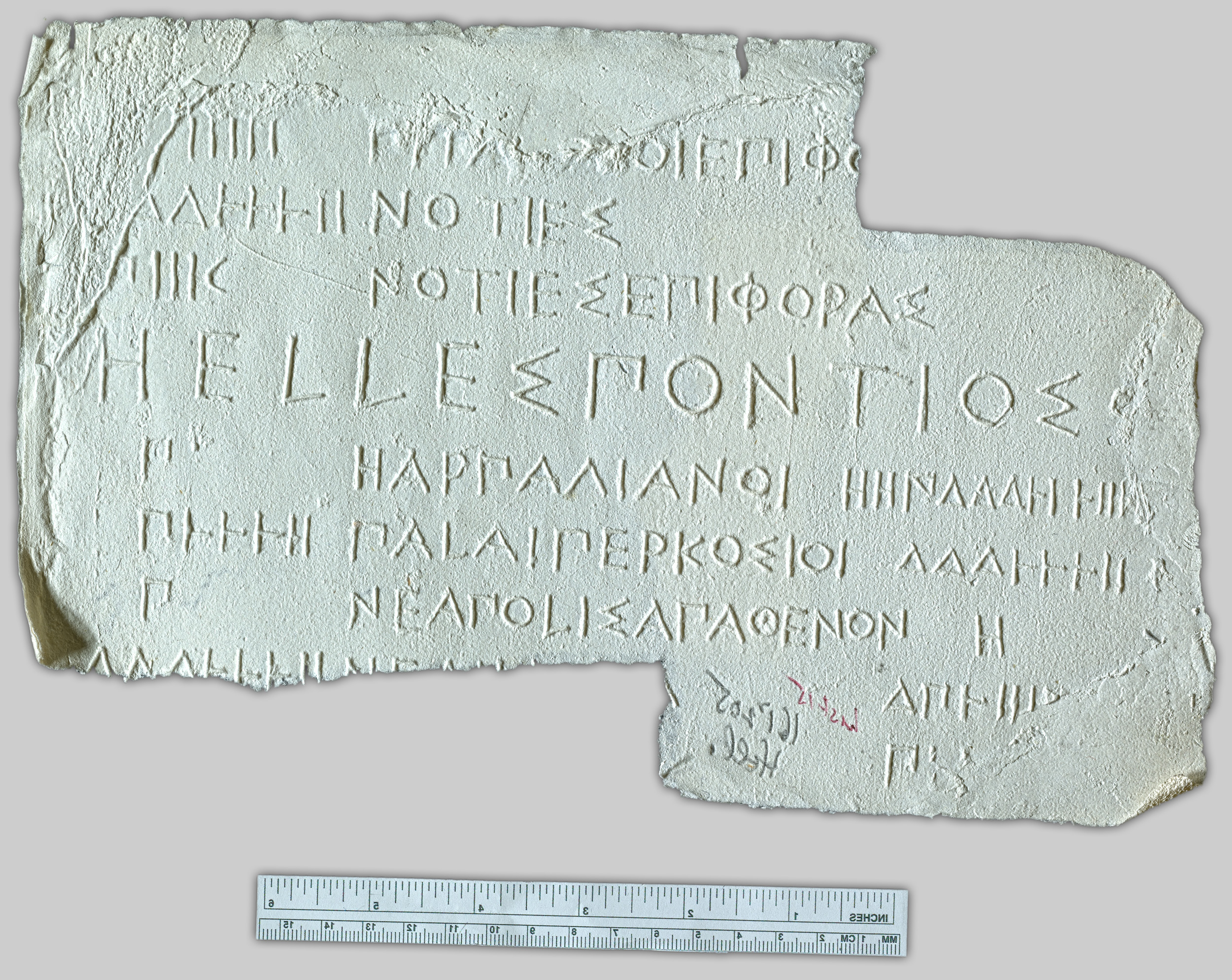 Reminder: No known copyright restrictions. Please credit UBC Library as the image source. For more information Date: 440-439 BCE Alternative Title: Annus 15 Category: Tables of Hellenotamiae Language: Greek, Ancient (to 1453) Project Website: Digital Identifier: ATL_15_I-II_24-31 Source: University of British Columbia. Department of Classical, Near Eastern and Religious Studies. Permanent URL